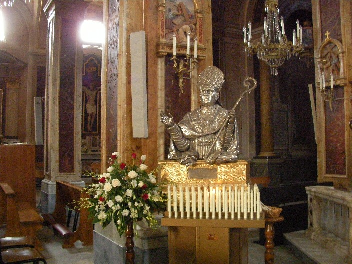 The silver bust of St. Leucio, realized by Nicola da Guardiagrele, preserved in the cathedral of St. Leucio to Atessa